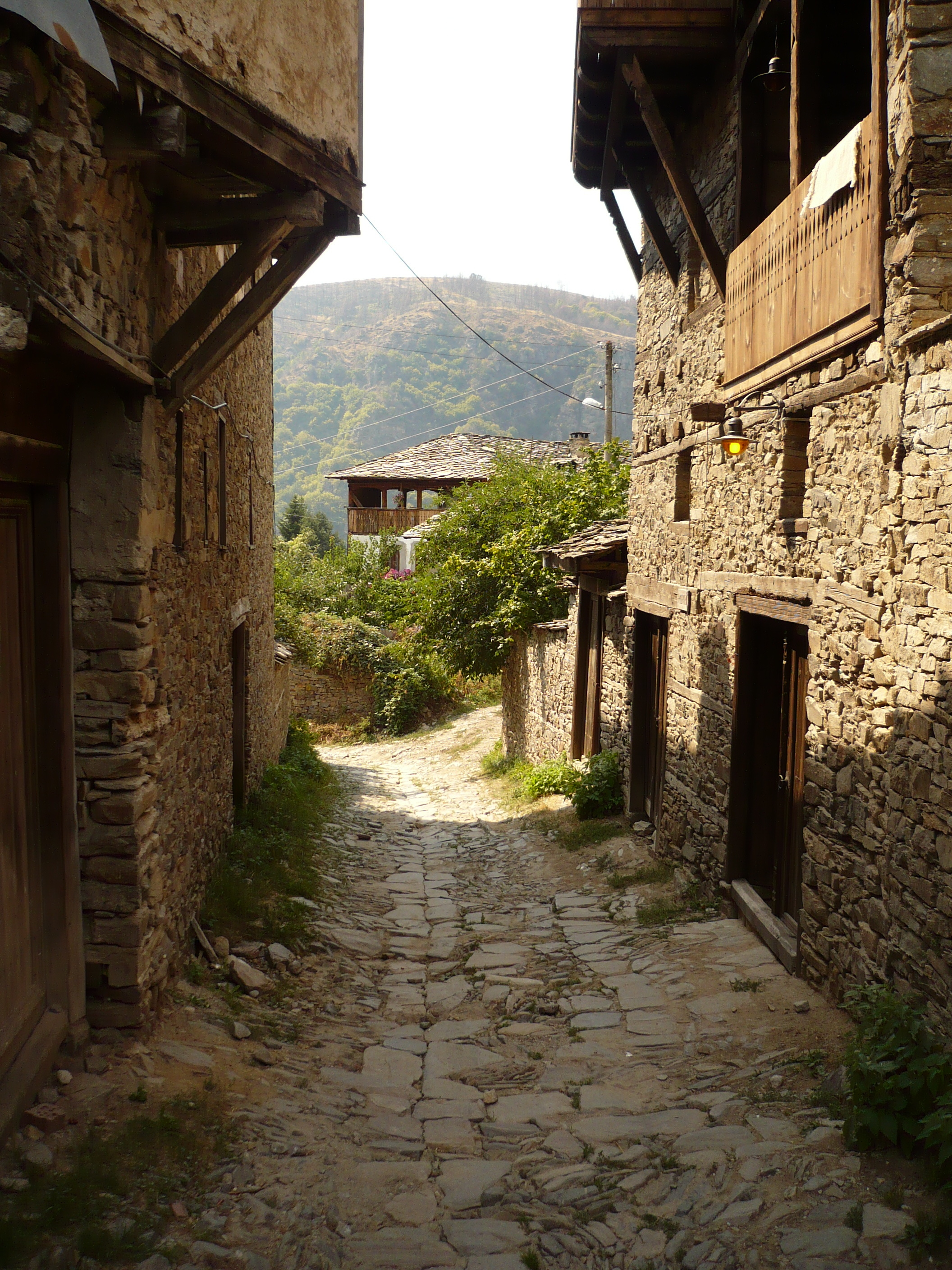 The village and architectural reserve Kovachevitsa, Bulgaria.